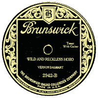 Wild and Reckless Hobo by Vernon Dalhart, Brunswick Records June 1925